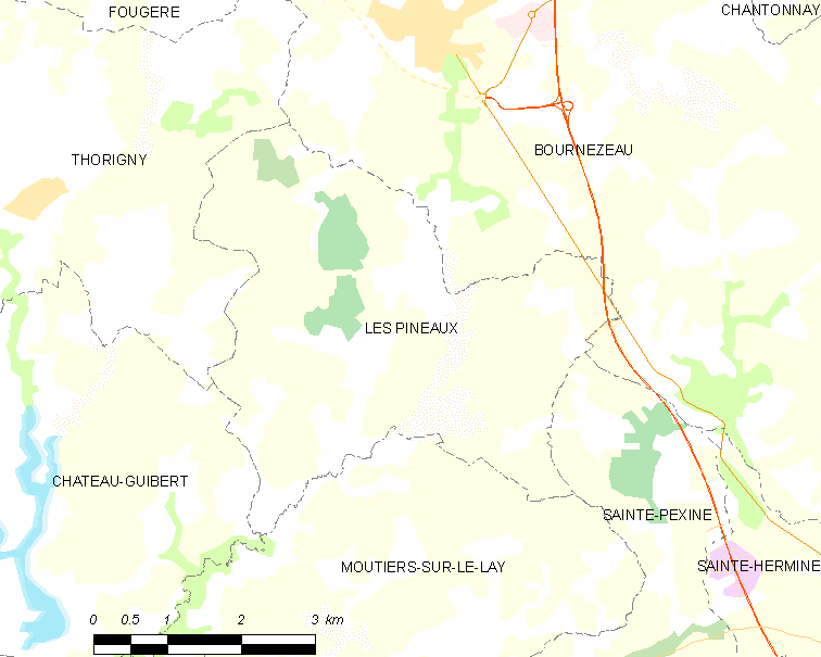 Map of French municipality Les Pineaux